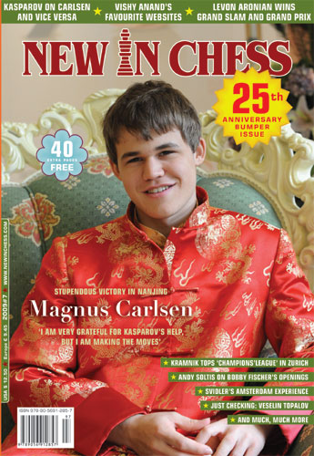 Magnus Carlsen in Chinese suit, cover of New in Chess 2009